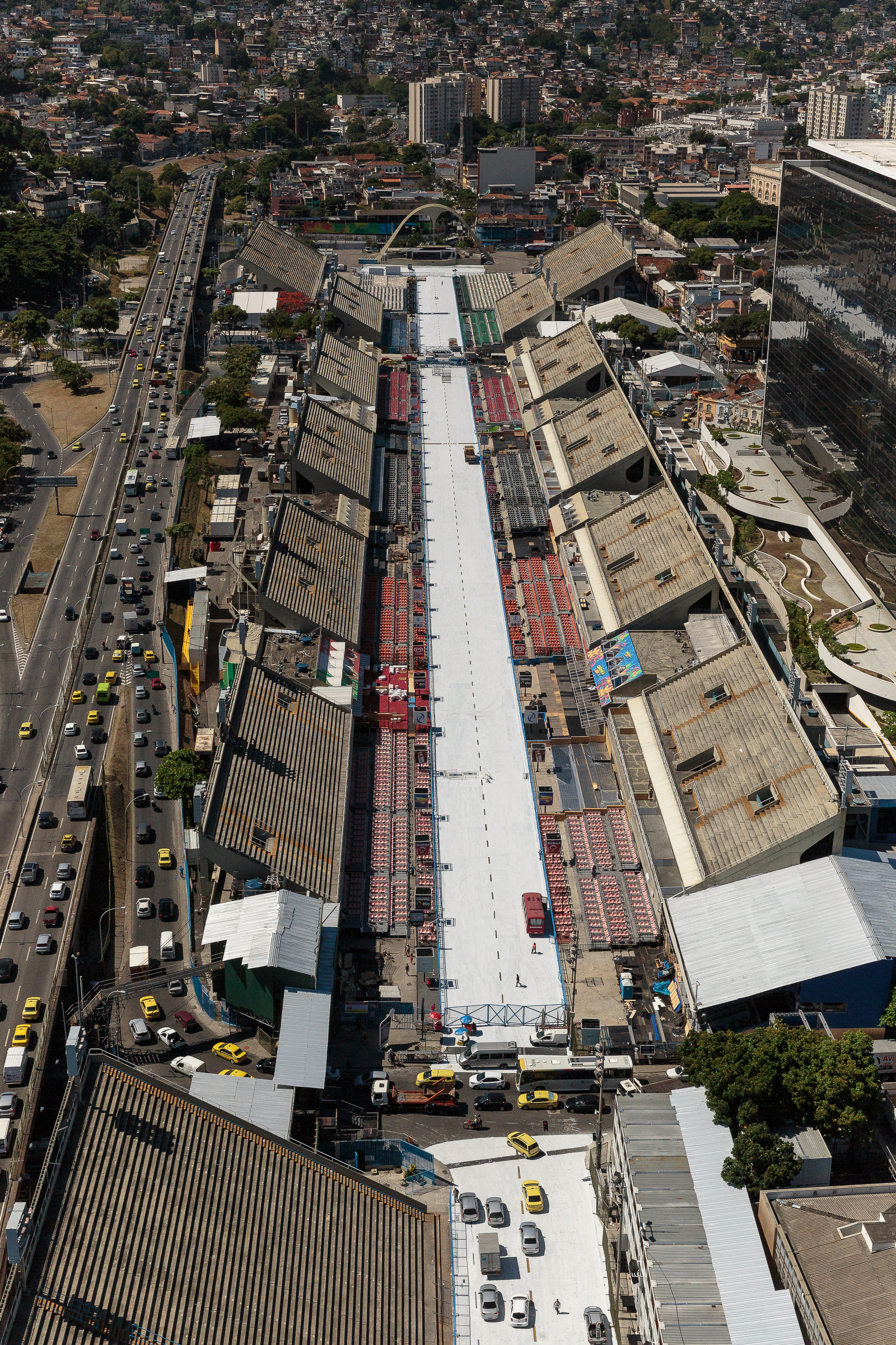 Vista aérea do Sambódromo da cidade do Rio de Janeiro